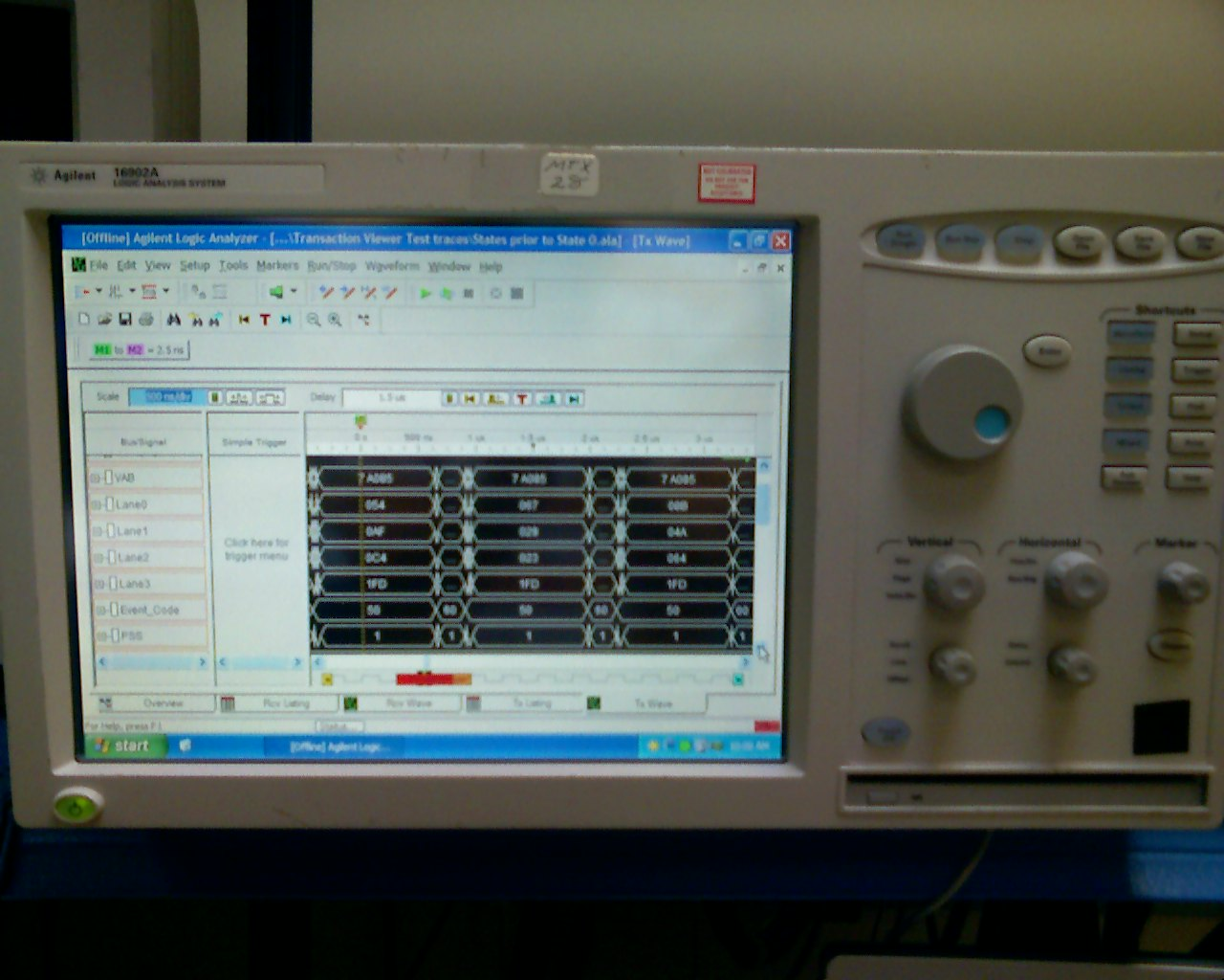 A 16902A Agilent Logic Analyzer